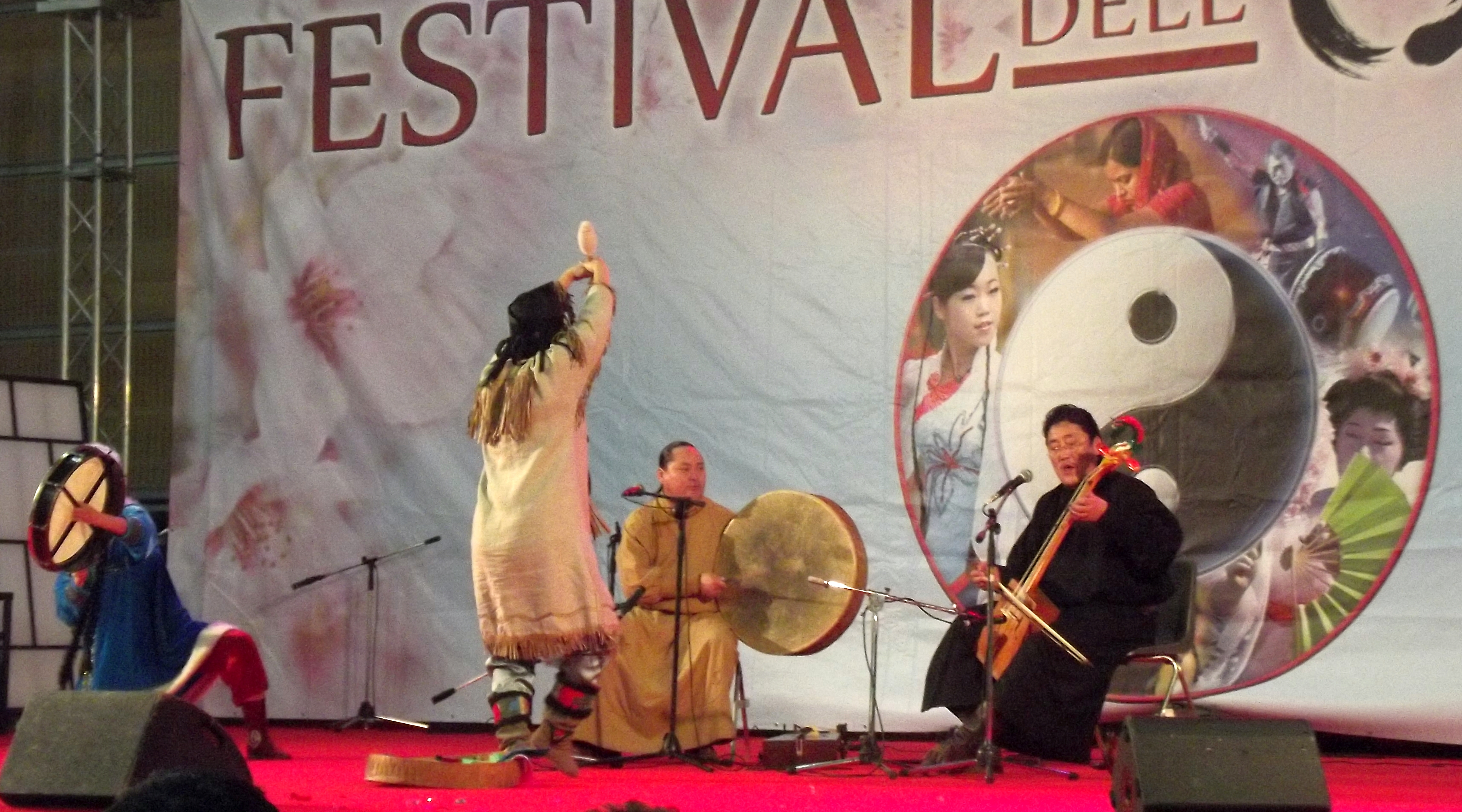 Egschiglen in Turin (festival dell'Oriente - March 2015)